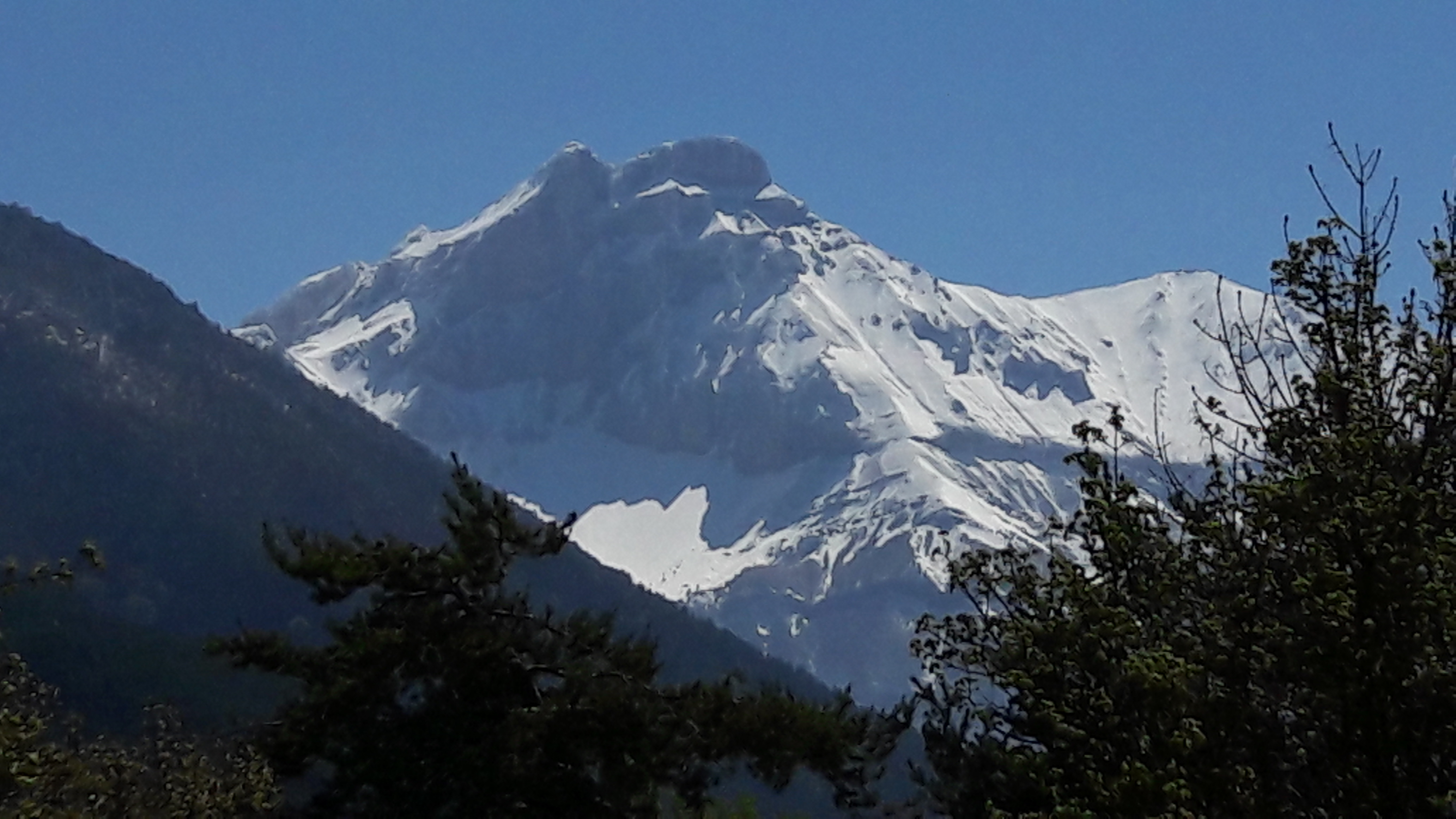 Western face of Grand Ferrand